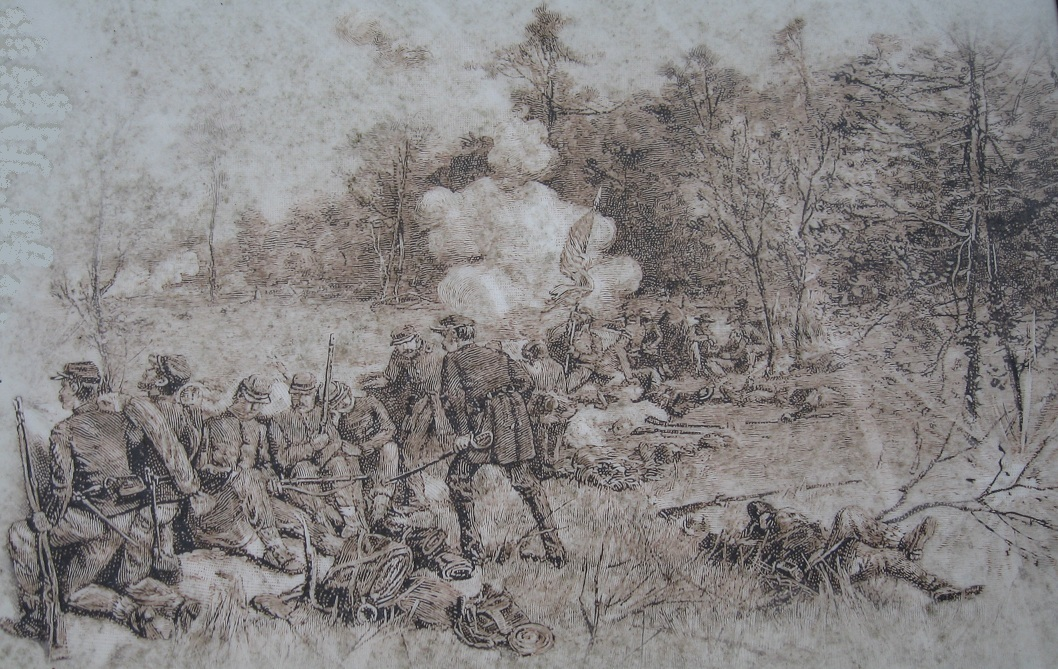 Pennsylvania troops fight along the line, May 3, 1863. Photograph by Donald E. Coho